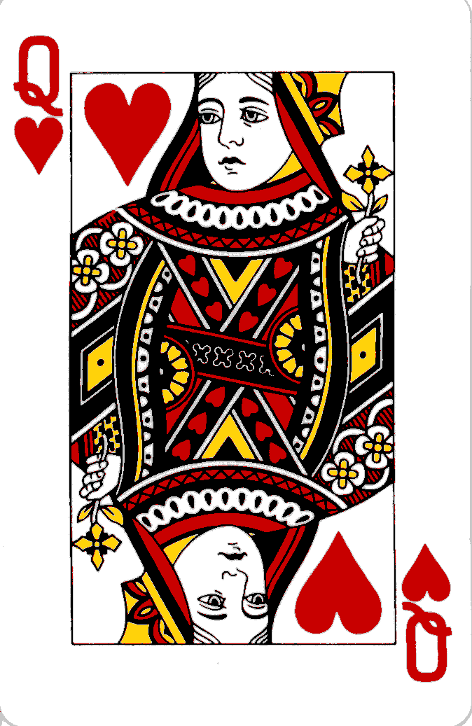 Elizabeth of York has been immortalised on decks of playing cards throughout English history as the 'Queen of Hearts', holding a Tudor Rose.